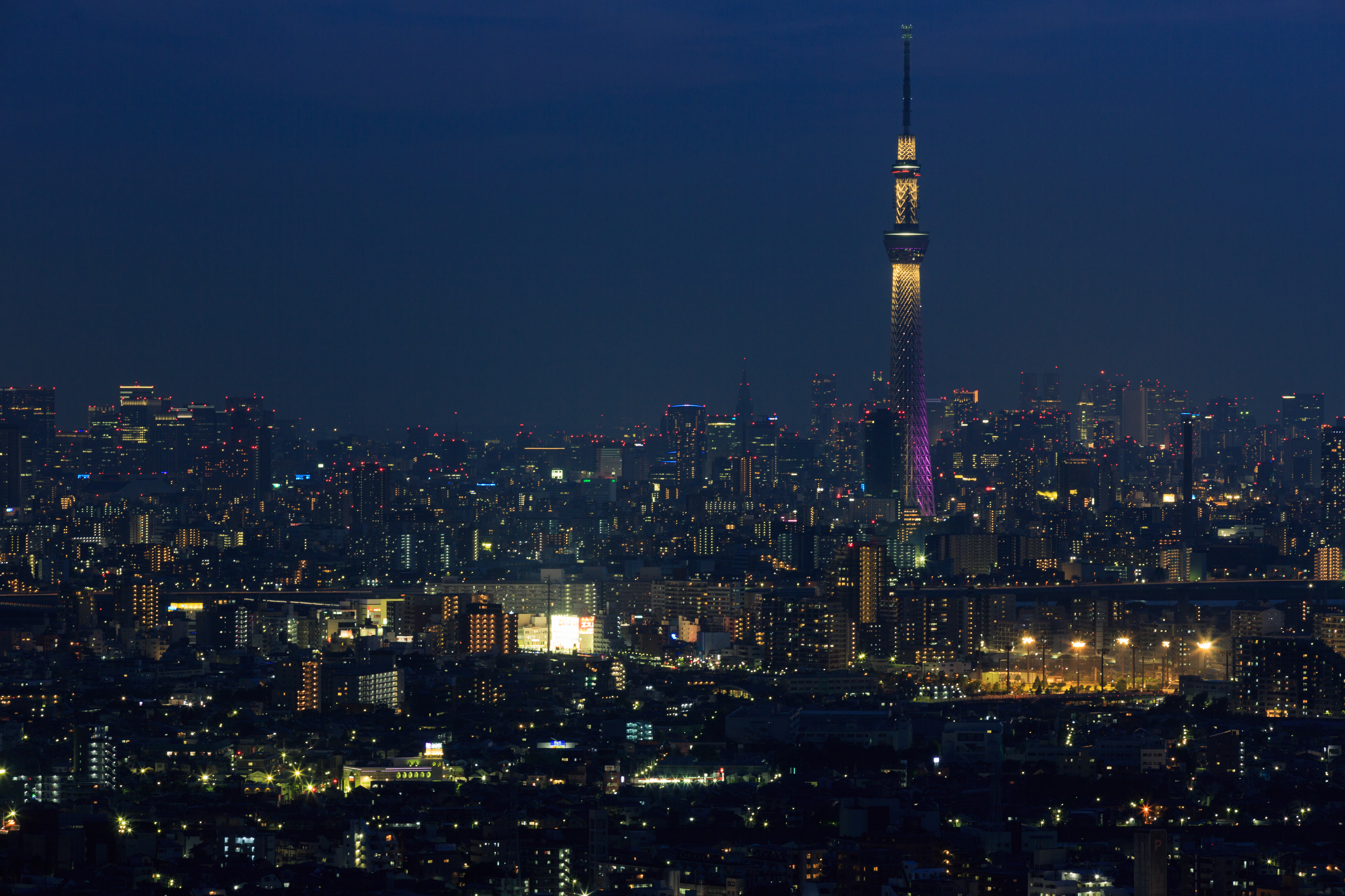 Nightview of Tokyo Skytree tower from i-link town Ichikawa